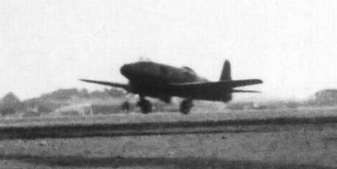 Kugisho R2Y Keiun in its maiden flight on May 8th, 1945.